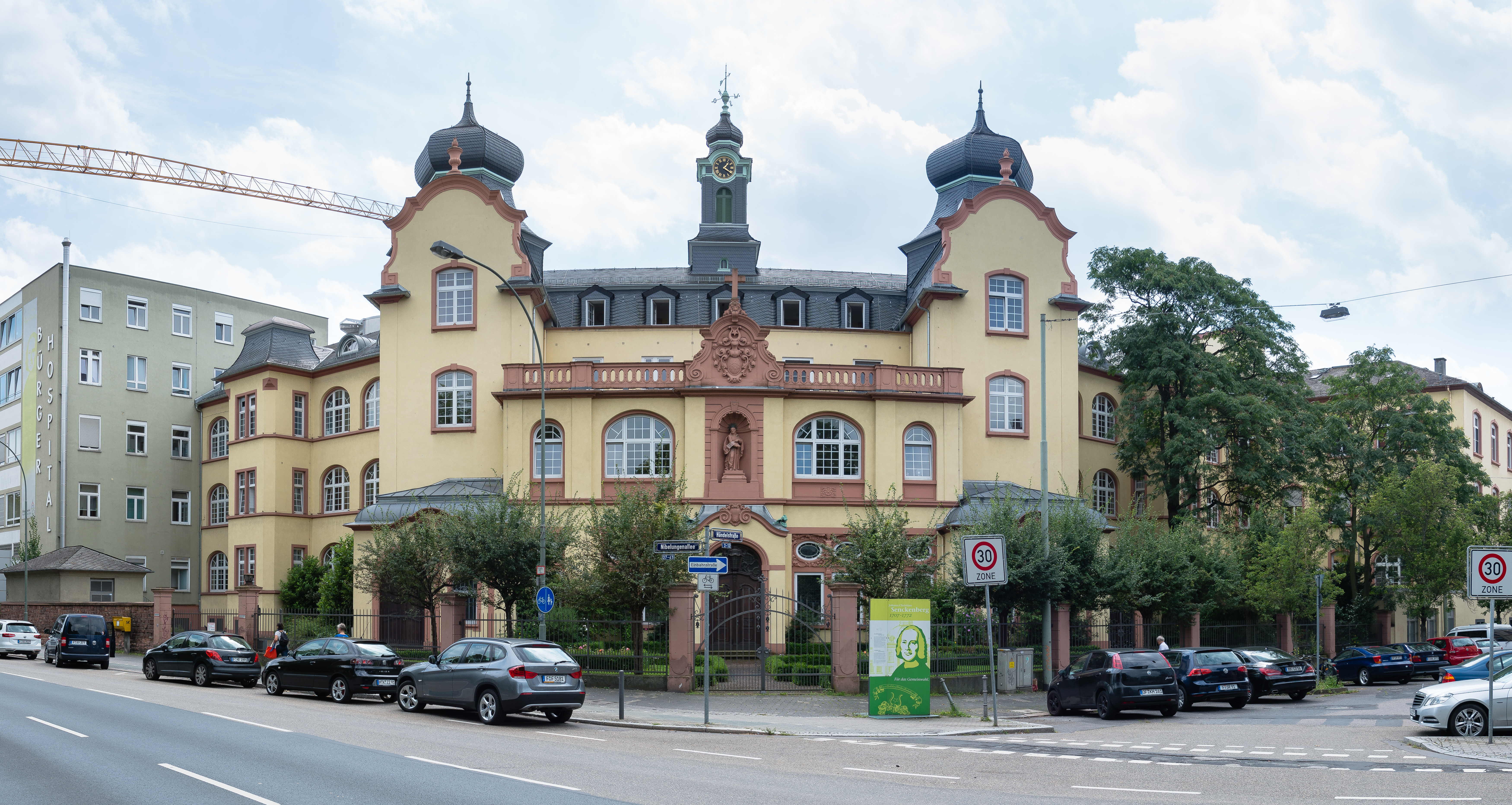 Frankfurt on the Main: Bürgerhospital, hospital at the Nibelungenallee as seen from the North. Cylindric Panorama stitch from 5 single shots